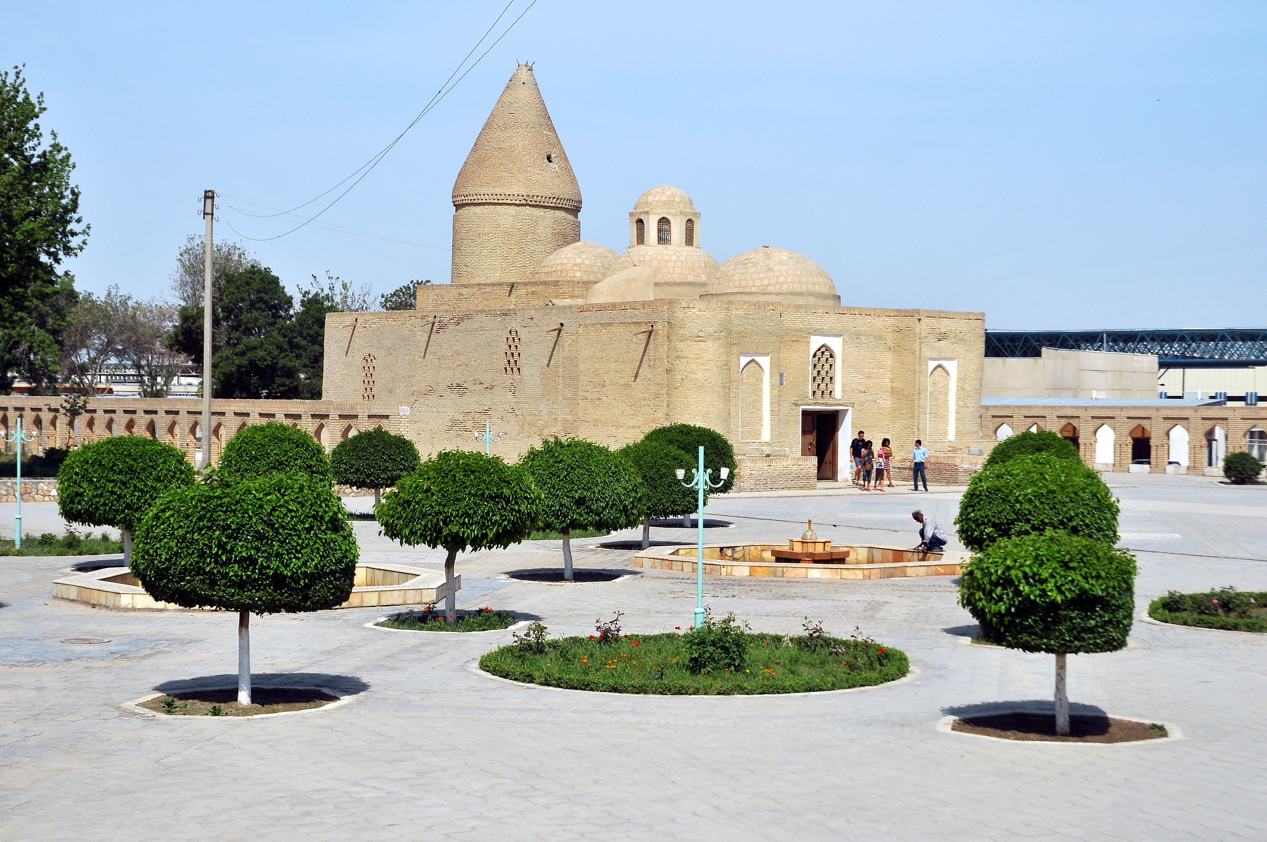 Chashma Ayub [Job Spring] Mausoleum. Bukhara, Uzbekistan